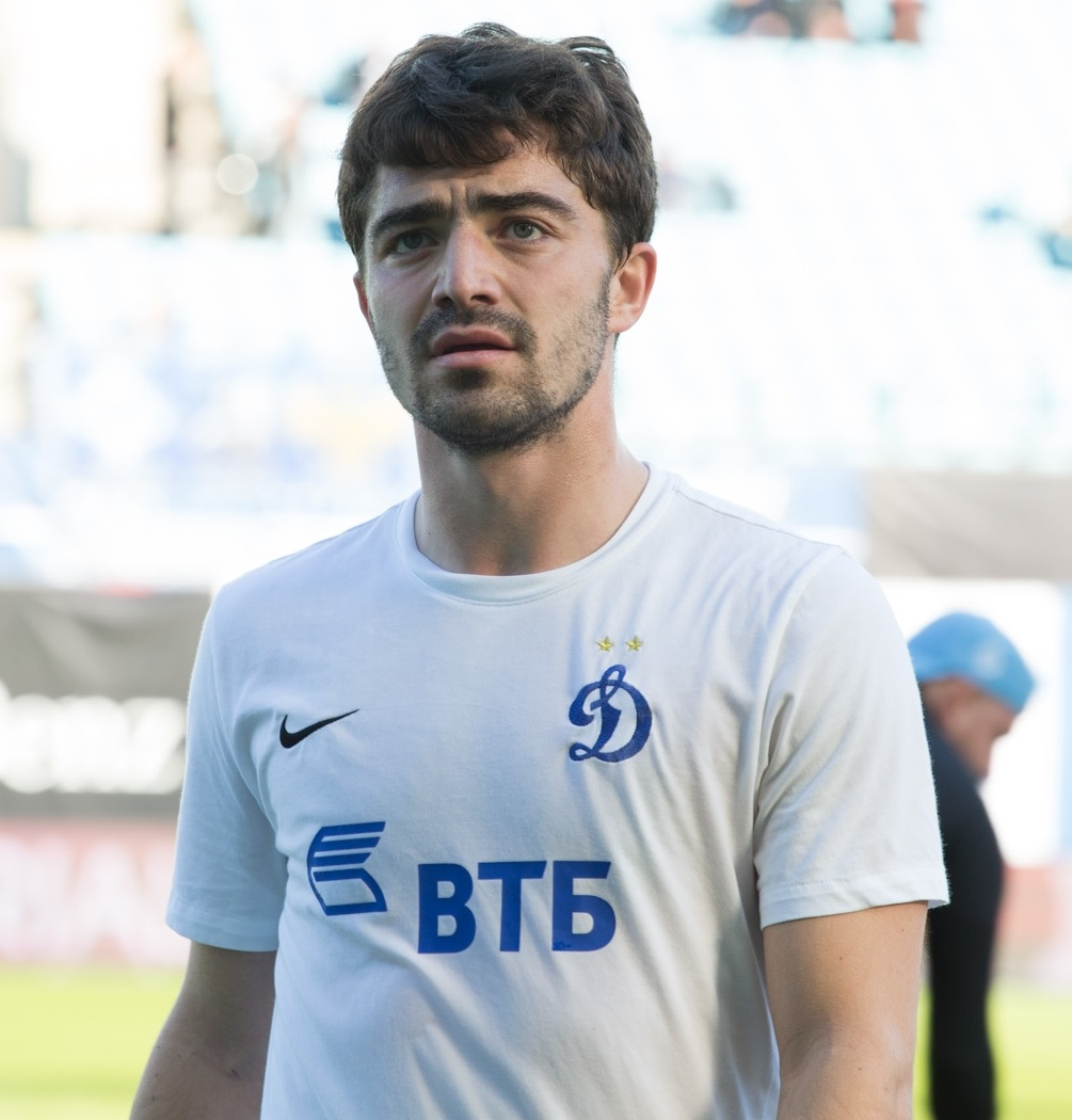 Anton Sosnin with FC Dynamo Moscow before the game against FC Krylia Sovetov Samara on 17 April 2016.